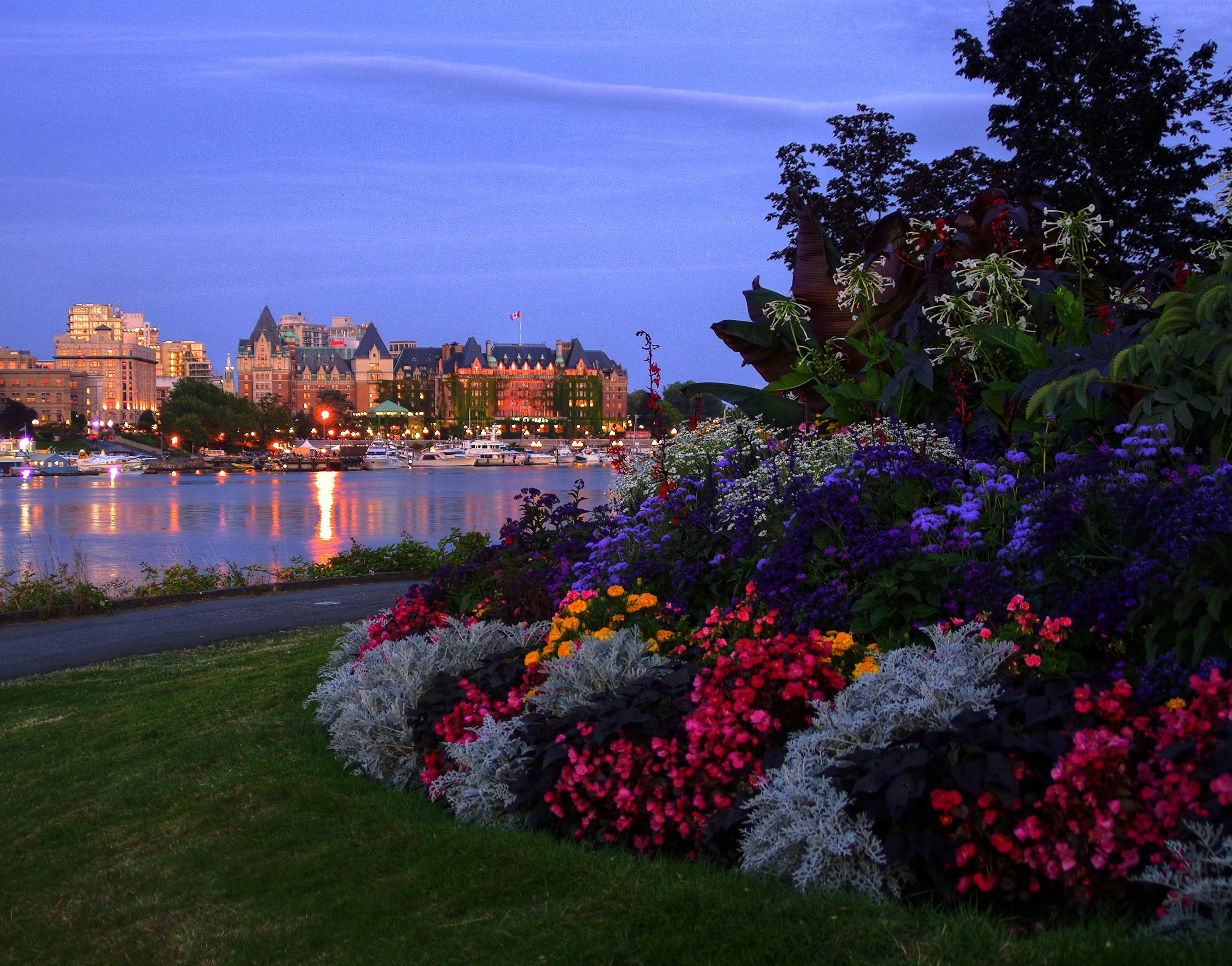 A wonderful place for a walk or photography, Laurel Point Park is located adjacent to Victoria's Inner Harbour. The trail that goes through the park leads to Fisherman's wharf. A favorite spot among locals and tourists alike. My friend Ireena 1 has done a similar, and non HDR version of this shot. I think her's is a bit better than mine. The reflections in it are great, and it's interesting to see how much the flowers have grown since she took hers in June. Check it out here if you have the time. Huge on Black